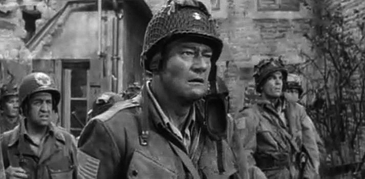 John Wayne (center), from the movie The Longest Day; on the right there is Tom Tryon - trailer (cropped screenshot)